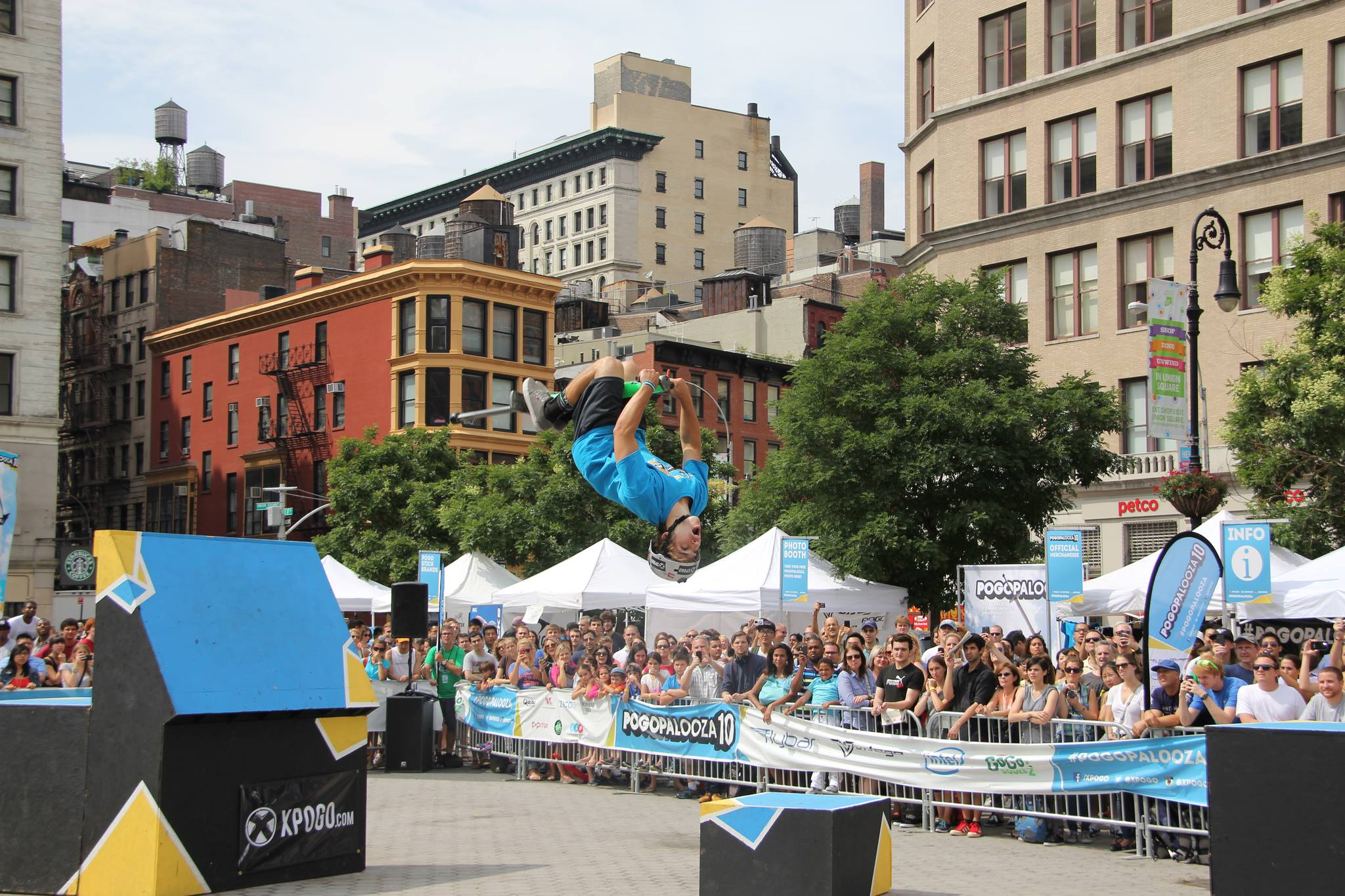 This is a picture of Russ Kaus Backflipping at Pogopalooza 10